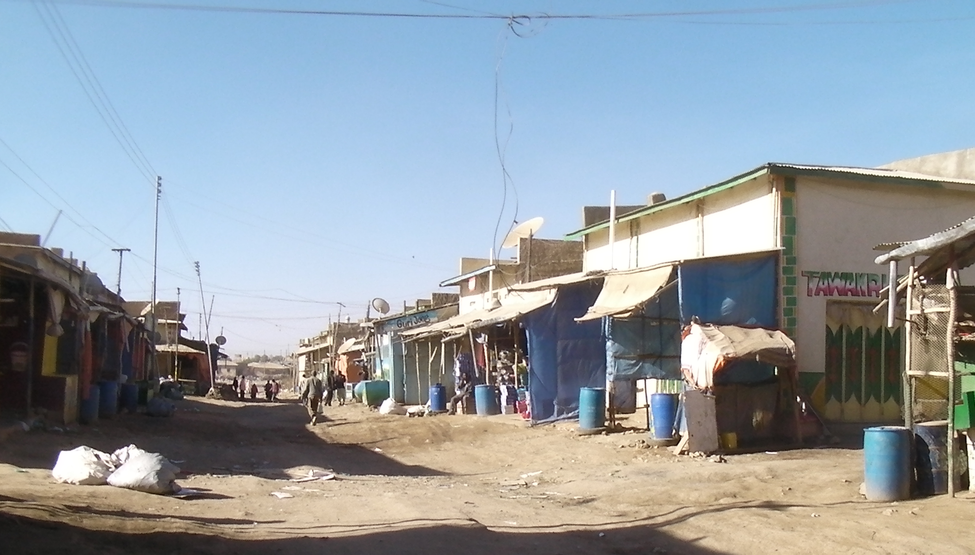 A side street on the Somaliland side of the Somaliland/Ethiopia border town of Wajaale.